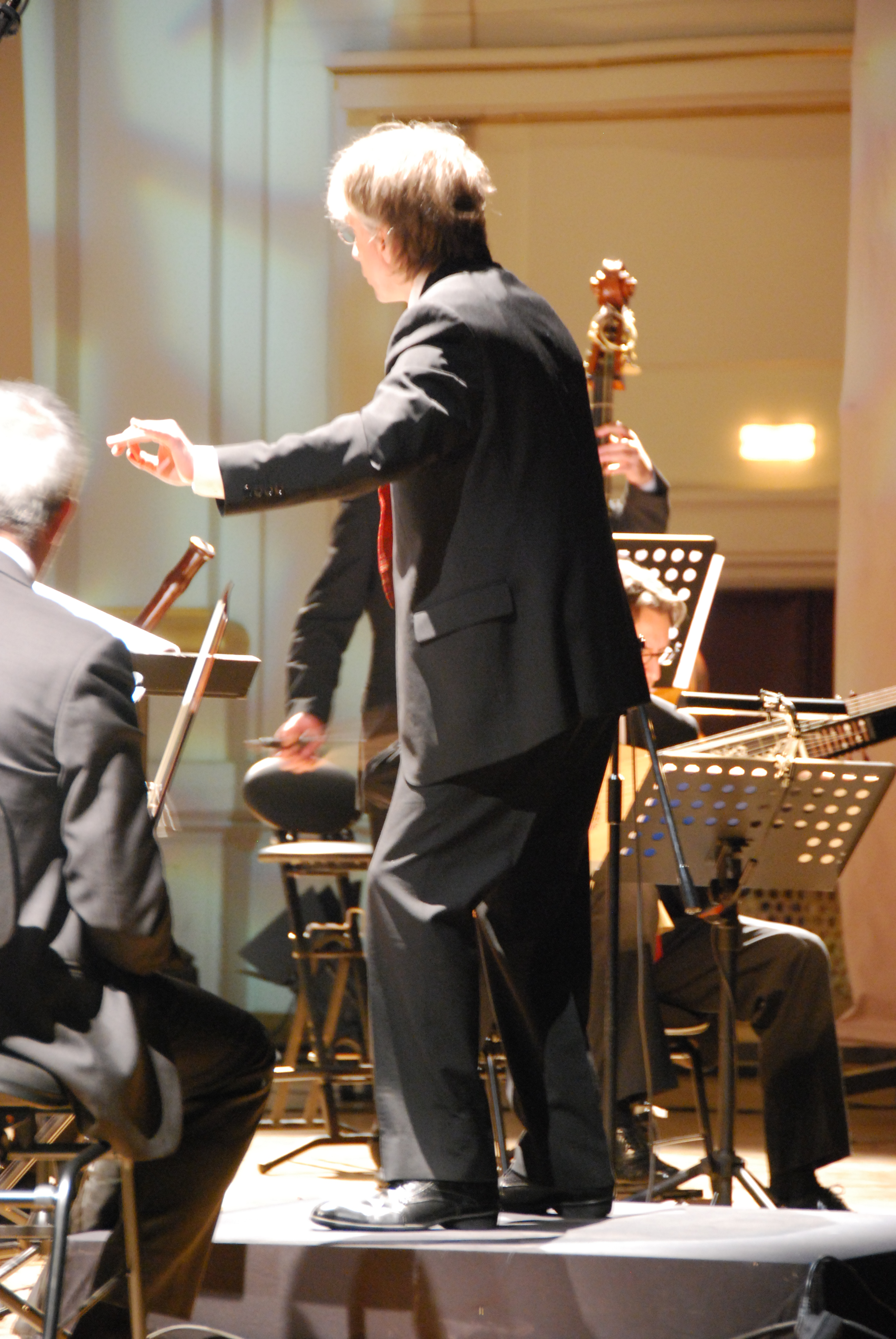 Giovanni Antonini, Misteria Paschalia Festival, Kraków Philharmonic, 04.04.2010.